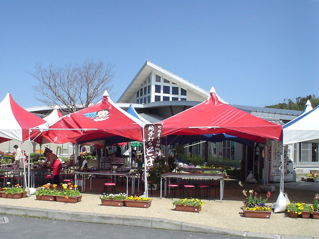 Michinoeki Kinpoumokuhanakan (Minamisatsuma-shi Kagoshima JAPAN)